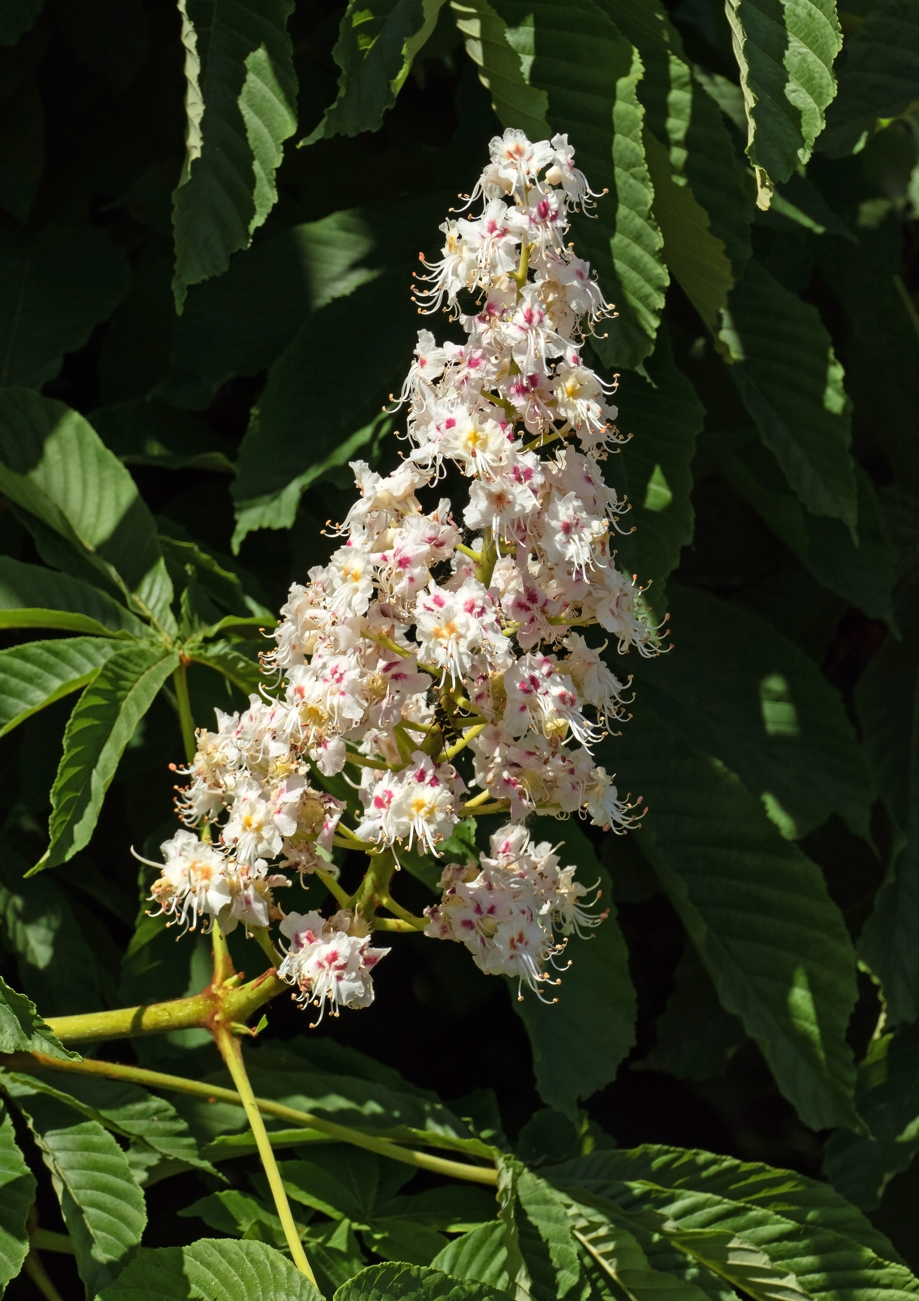 Horse chestnut (Aesculus hippocastanum) in bloom in Brodalen, Lysekil Municipality, Sweden.